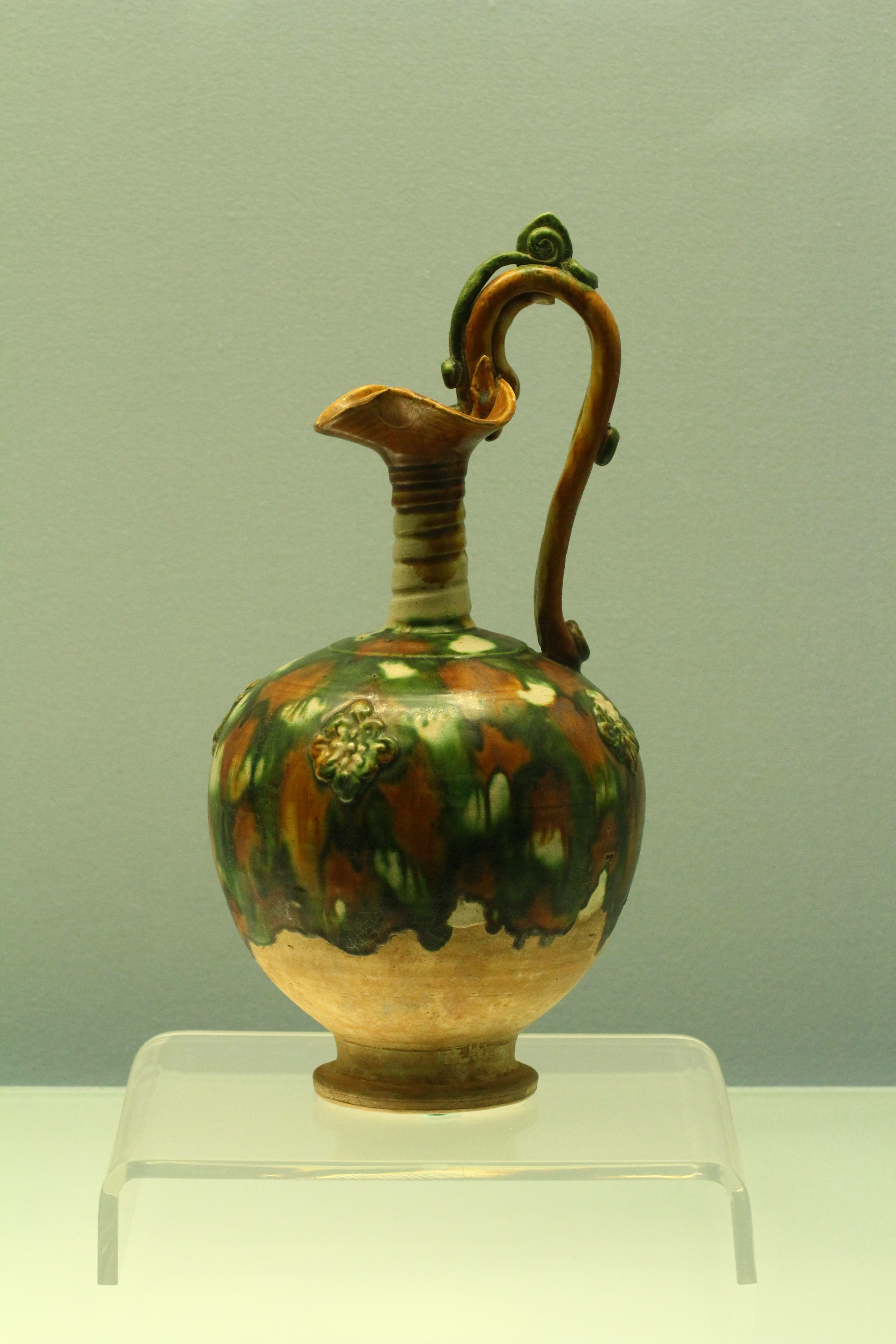 Polychrome-glazed pottery phoenix-head ewer with applique decoration. Liao, A.D. 947-1125.